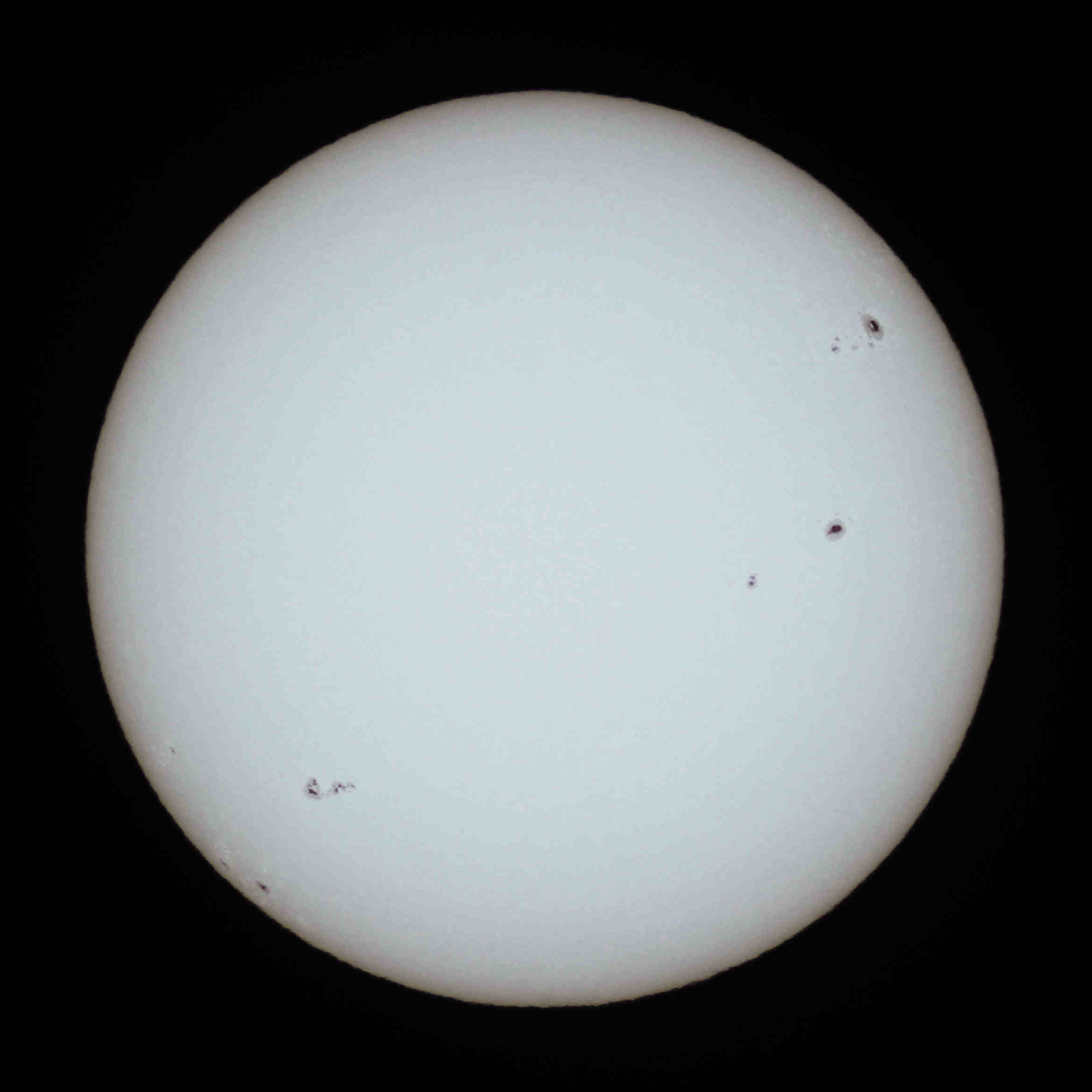 The image was taken through a 80mm Vixen refractor mounted on a Super Polaris equatorial mounting. Sonnenfilter SF100 full aperture solar filter (bought from: was used to reduce the light intensity. The film is used as a filter that goes over the aperture of the telescope making it safe to observe and image the Sun. The camera was a Canon 550D DSLR at prime focus. Exposure was 1/400 sec at ISO100.